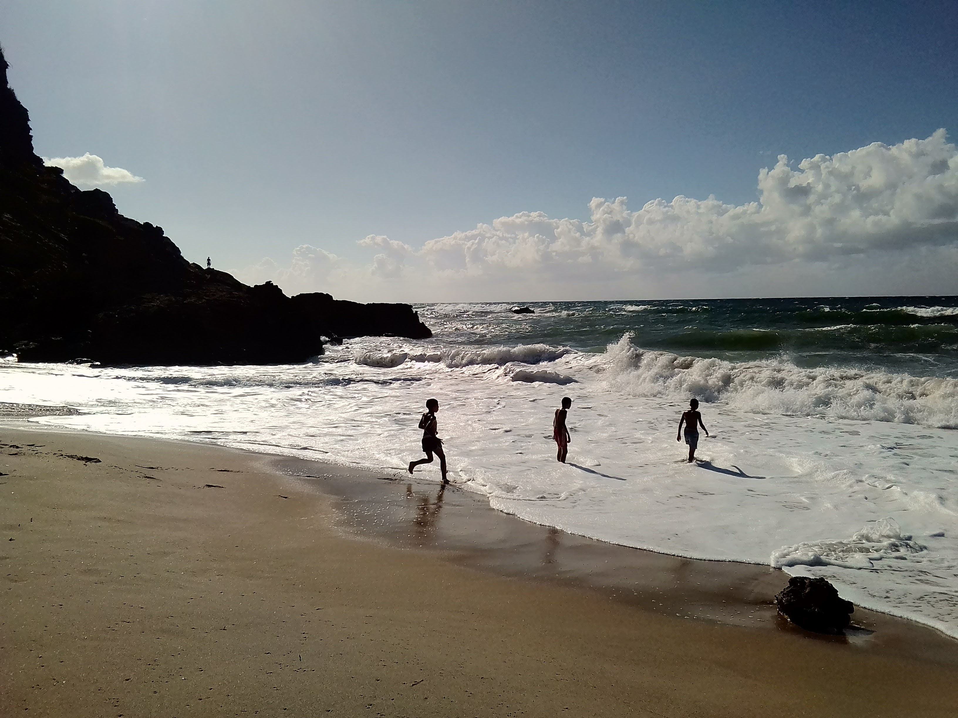 Kids by the rough wavy seashore having fun and swimming! Lahnaya Beach, Berrihane, El Taref This is an image with the theme "Africa on the Move or Transport" from: Algeria